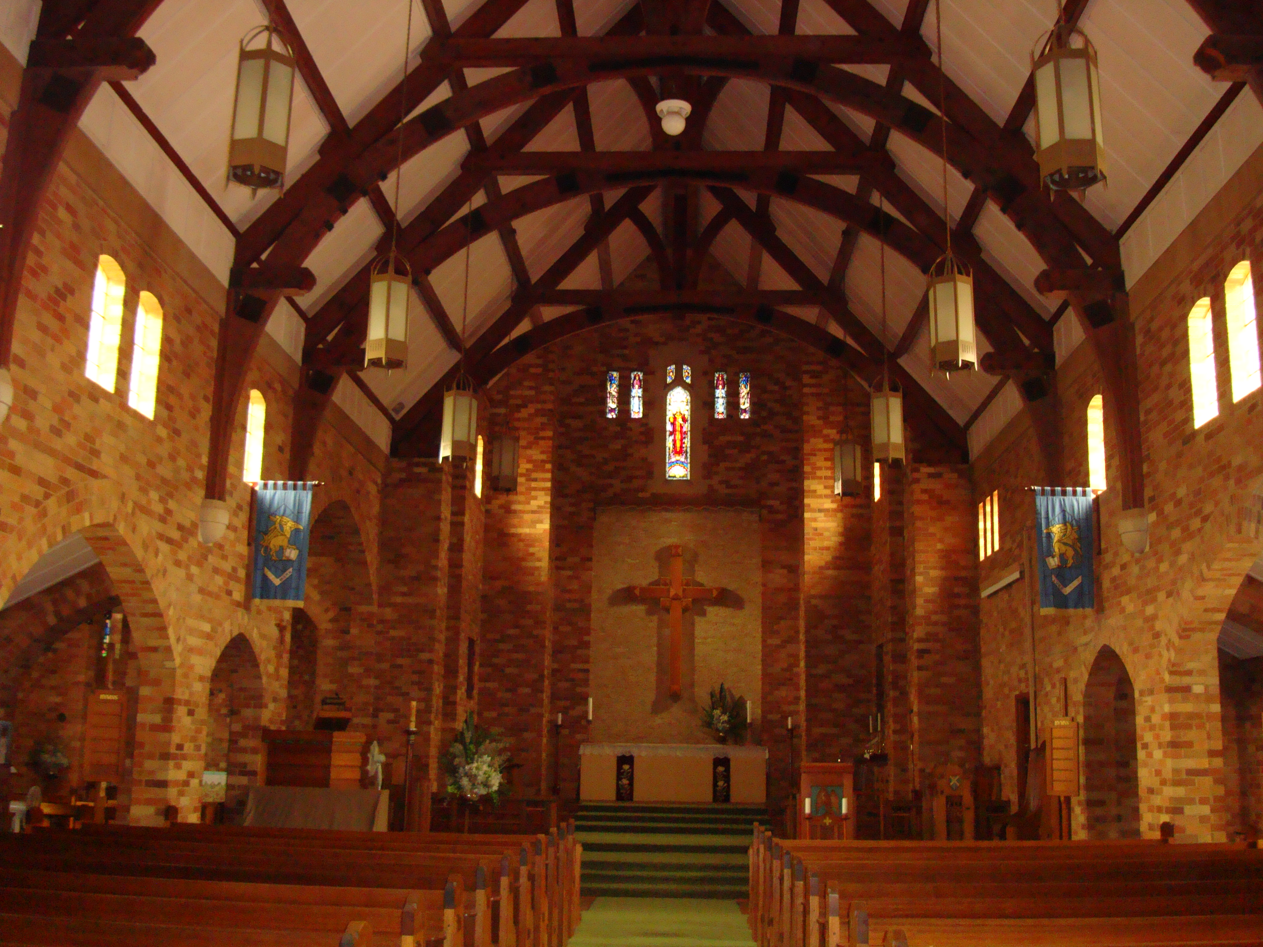 Photograph of the interior of St Alban's Cathedral, Griffith, New South Wales, Australia